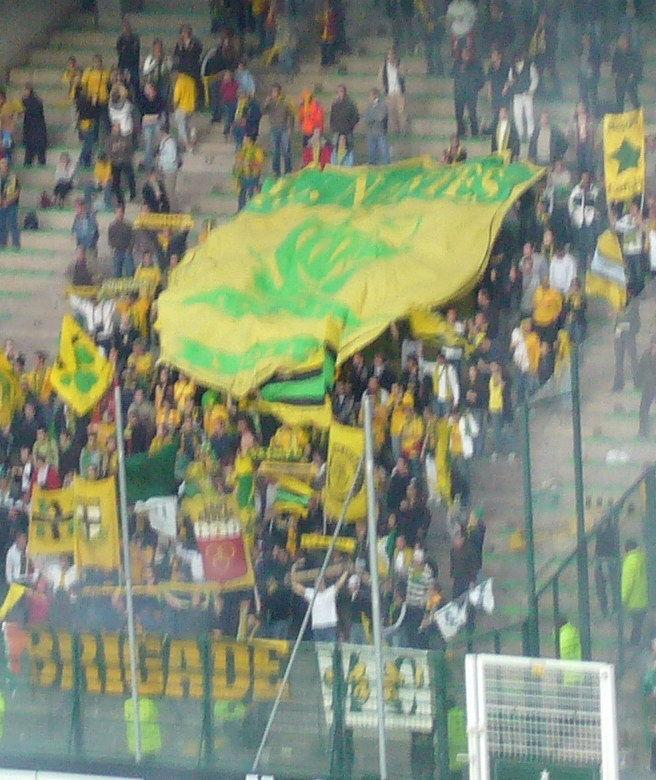 This is the french soccer team FC Nantes supporters during the French national championship game between AS St Etienne and the FC Nantes. I, Sanguinez, the author of that picture, took this shot and resize it using the gimp !